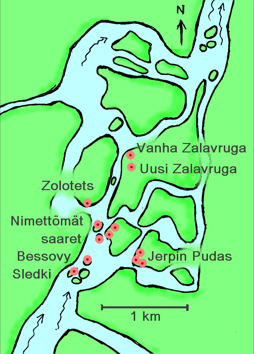 Map of River Vyg stone age rock carving area in Carelia Russia White Sea including names Zalavruga, Zolotets, Jerpin Pudas, Bessovy Sledki, in Finnish